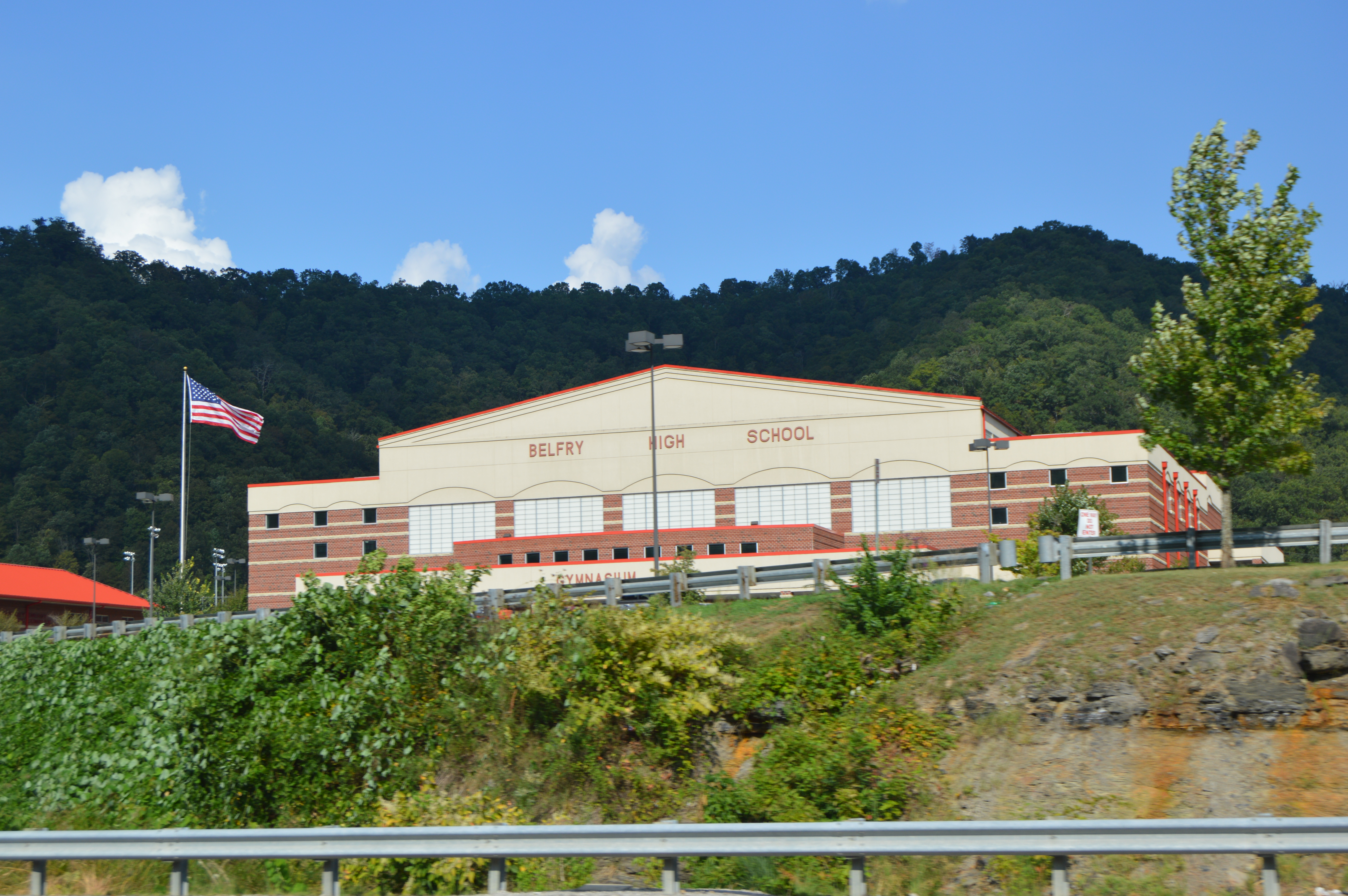 Roadside view of the front of Belfry High School, located along U.S. Route 119 in Belfry, Kentucky, United States.